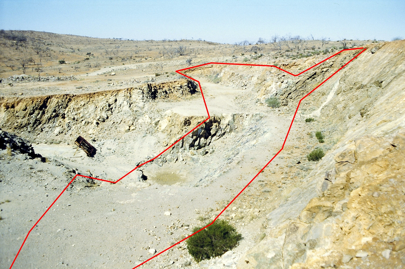 Mt Mulga barite mine, Olary region, South Australia: The orebody is marked in red and is hosted by an overturned Palaeo-Proterozoic Meta-sedimentary sequence